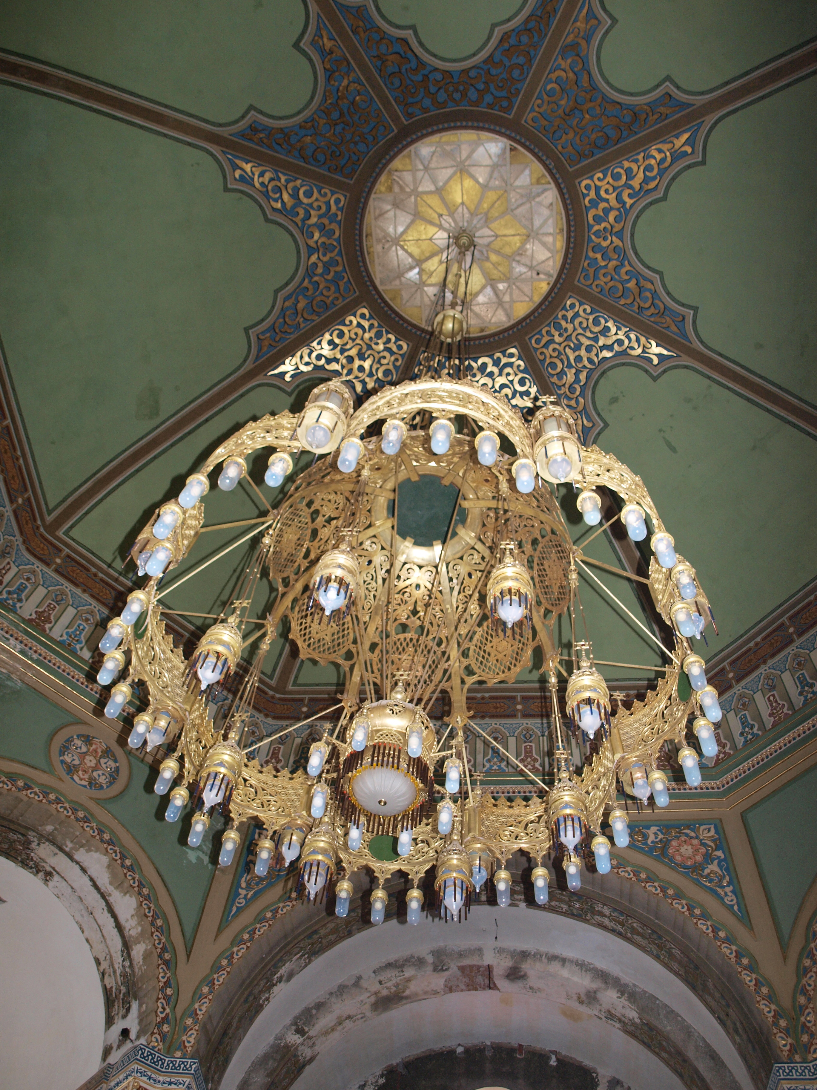 Sofia Synagogue - chandelier